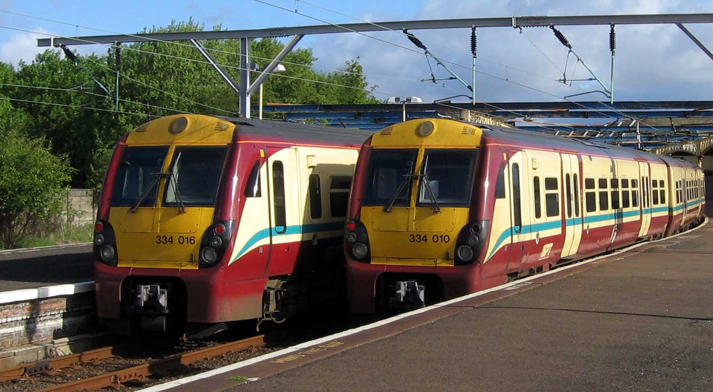 Strathclyde Partnership for Transport British Rail Class 334 trains (334 010 and 334 016) at Gourock railway station